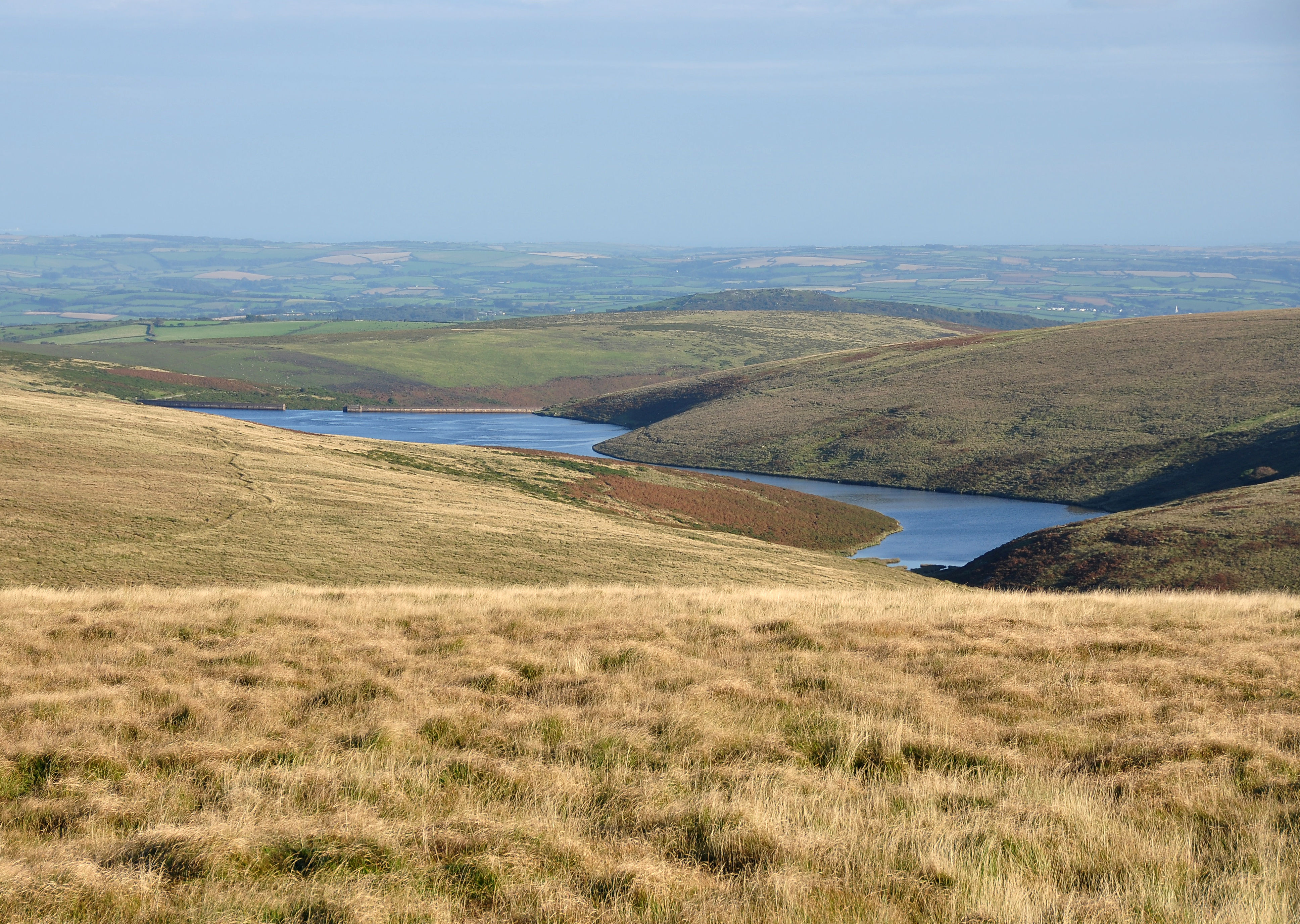 The Avon Reservoir on Dartmoor. This view is from Heap of Sinners, to the north of the reservoir, looking down the valley.